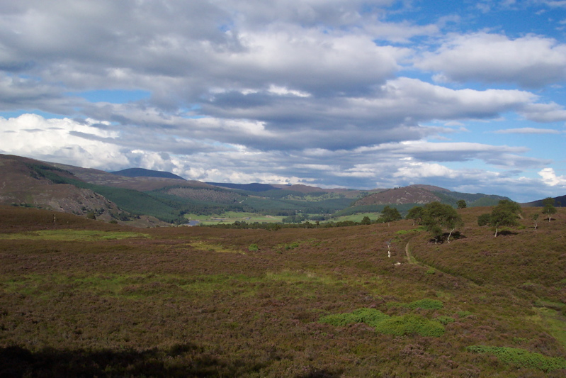 Morrone Birkwood Nature Reserve, Braemar, Aberdeenshire. Taken in 2004 by myself. Public domain.